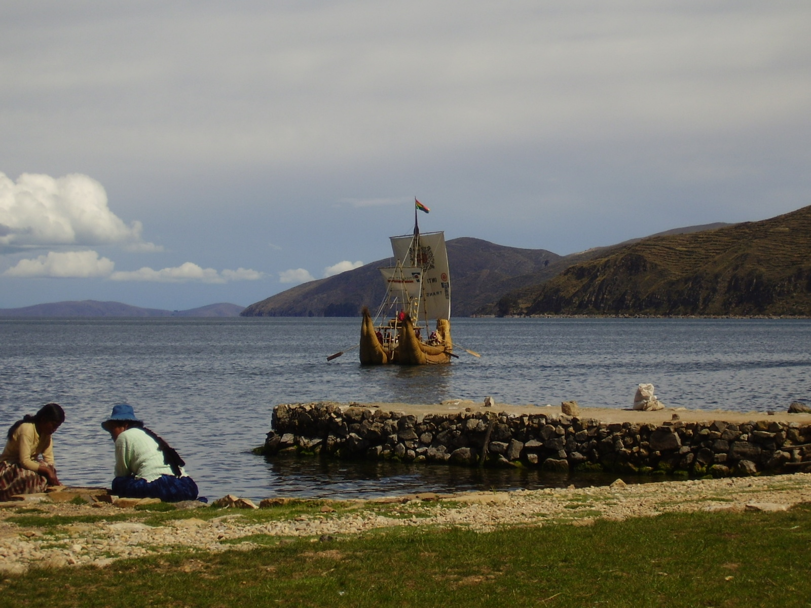 Raft of totora on Lake Titicaca in the island of the Sun (Bolivia).